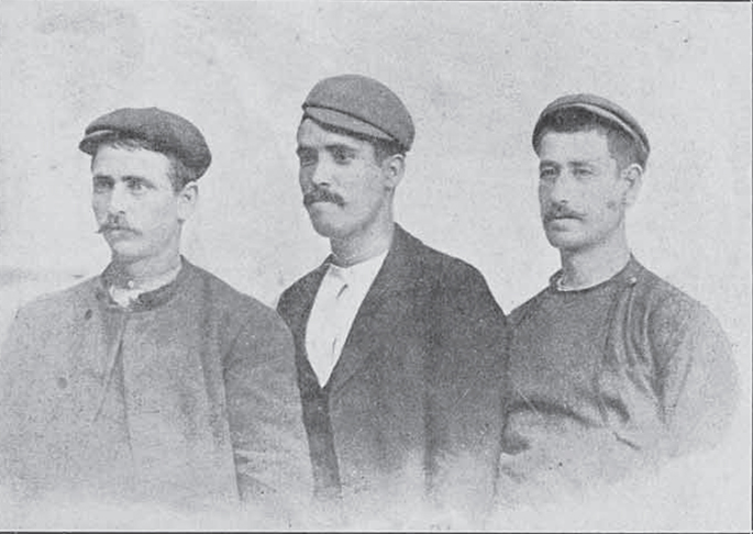 Trayko Shekerliyski Gotse_Dumchev and Dino Lyulyanov from IMARO